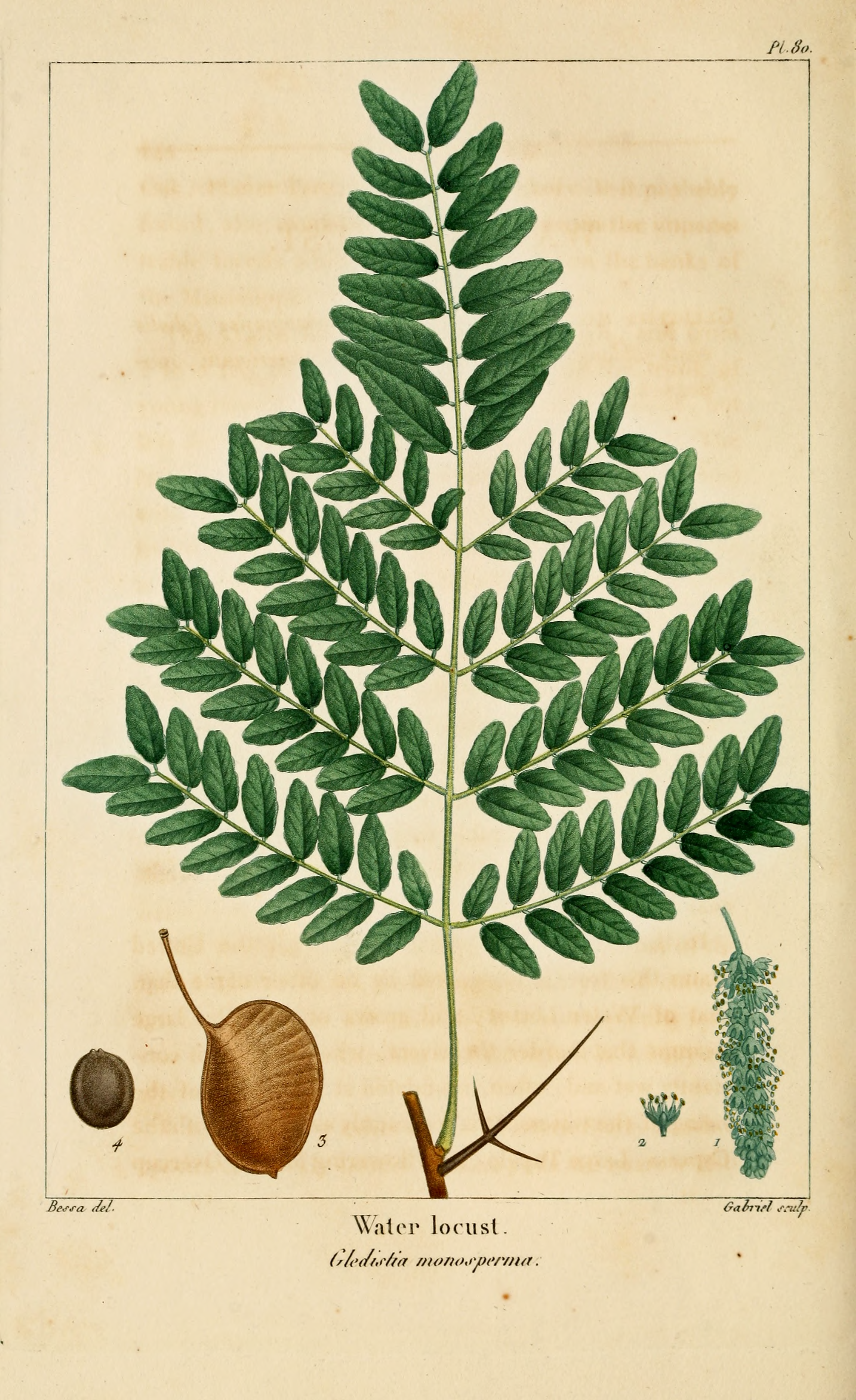 Plate from The North American Sylva